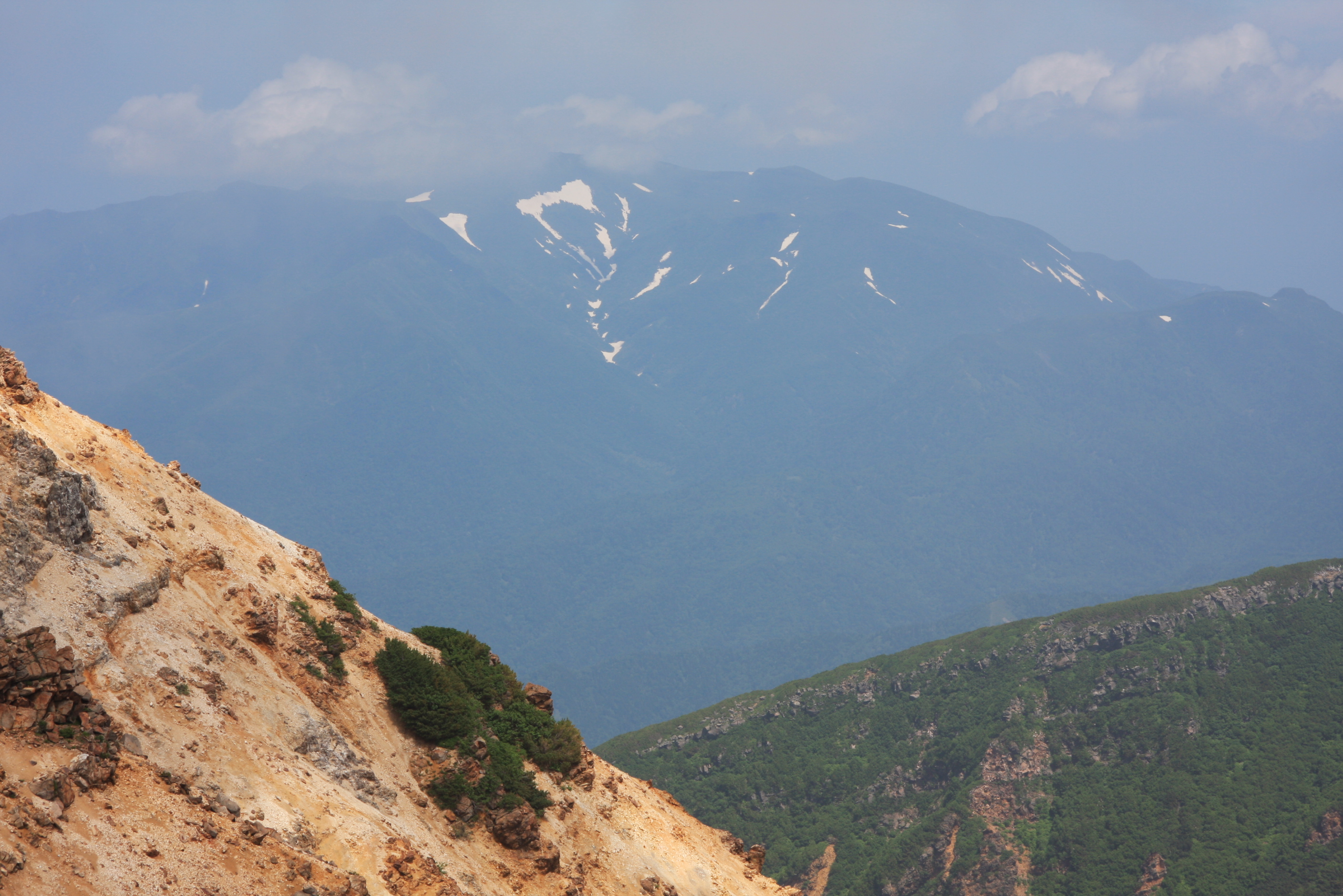 Mount Shiretoko as seen from Mount Mount Io